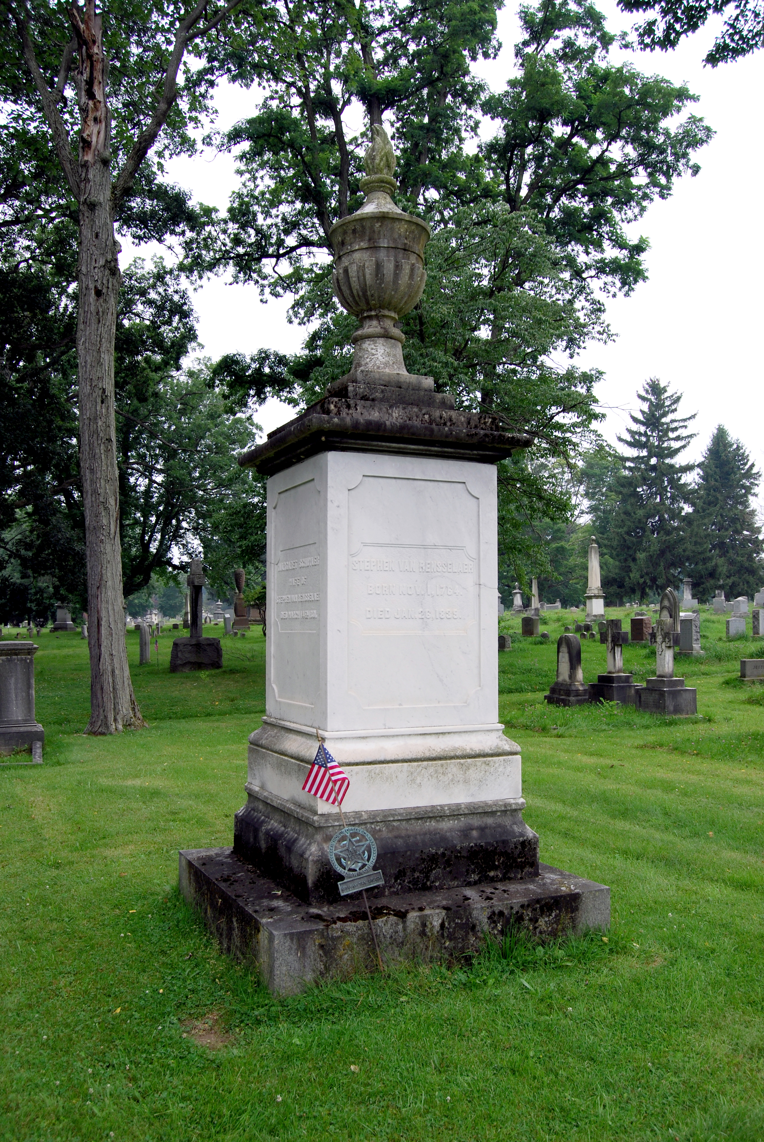 Grave of Stephen van Rensselaer III (1764-1839), last patroon of Rensselaerswyck, located in Albany Rural Cemetery in Albany, New York, United States